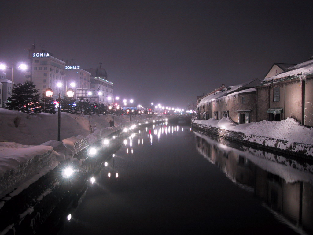 Nightscape of Otaru Canal. / 小樽運河の夜景。 (2005/03/11 Otaru, Hokkaido, JAPAN)Leisurely Walk